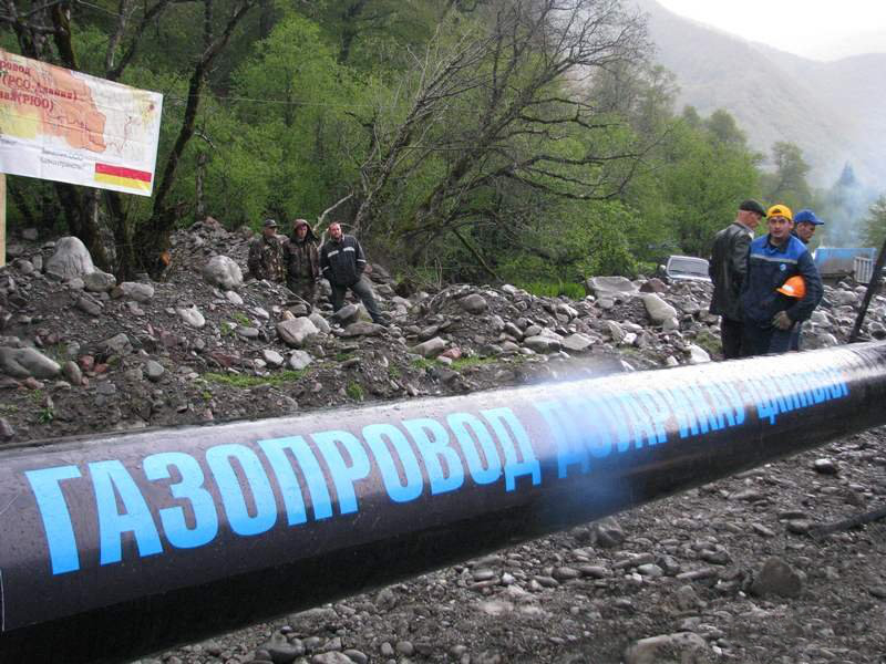 Gas pipeline Dzuarikau-Tskhinval